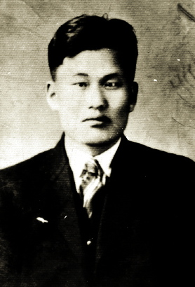 Yun Se-ju